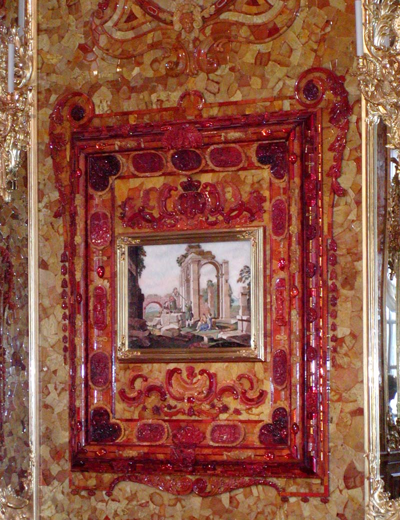 Pushkin (Russia), Amber Room of the Catherine Palace